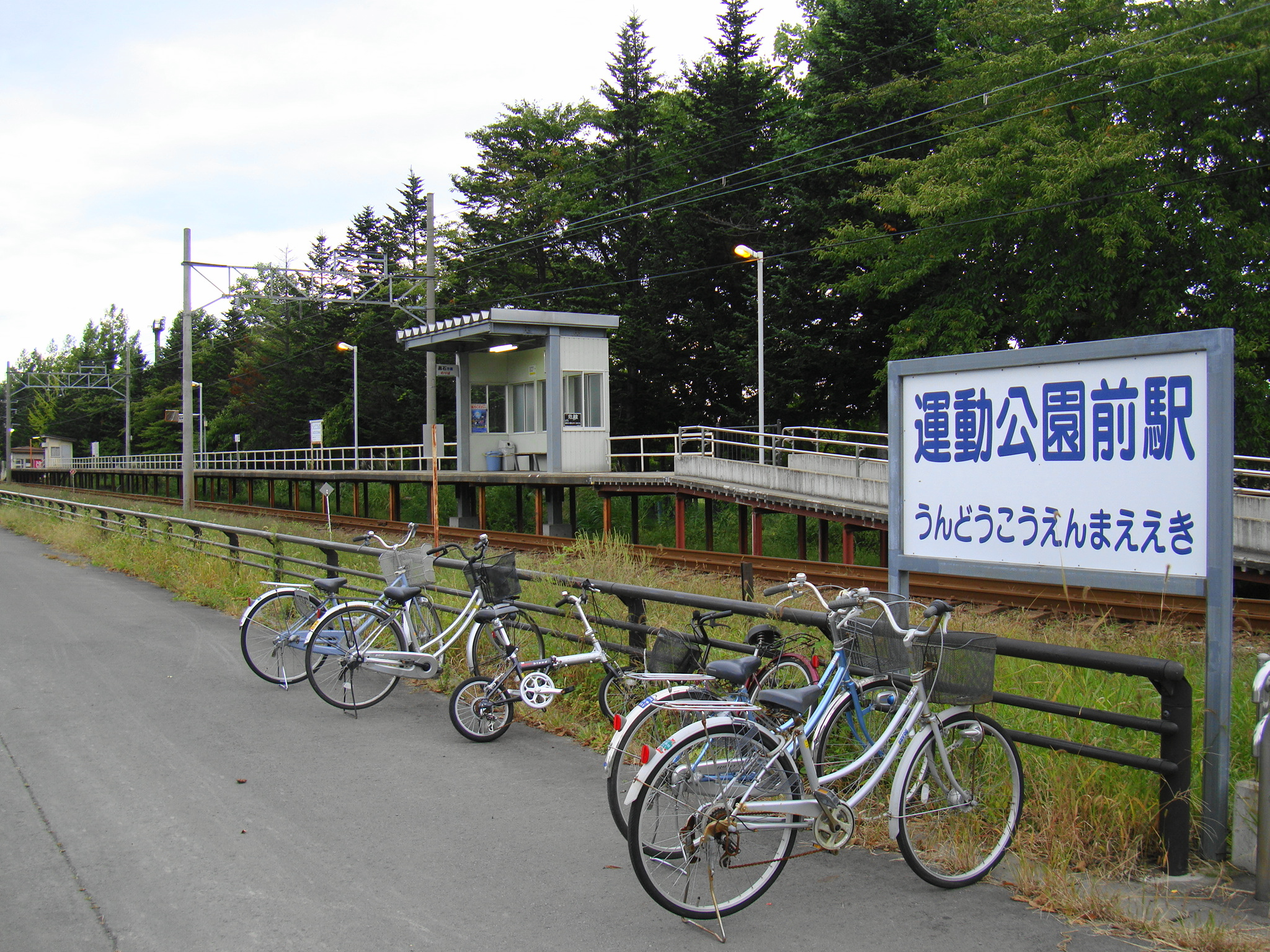 Undō Kōen-mae Station